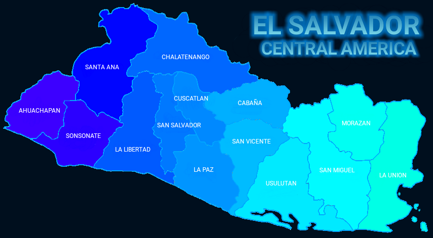 El Salvador Departments, Departamentos El Salvador